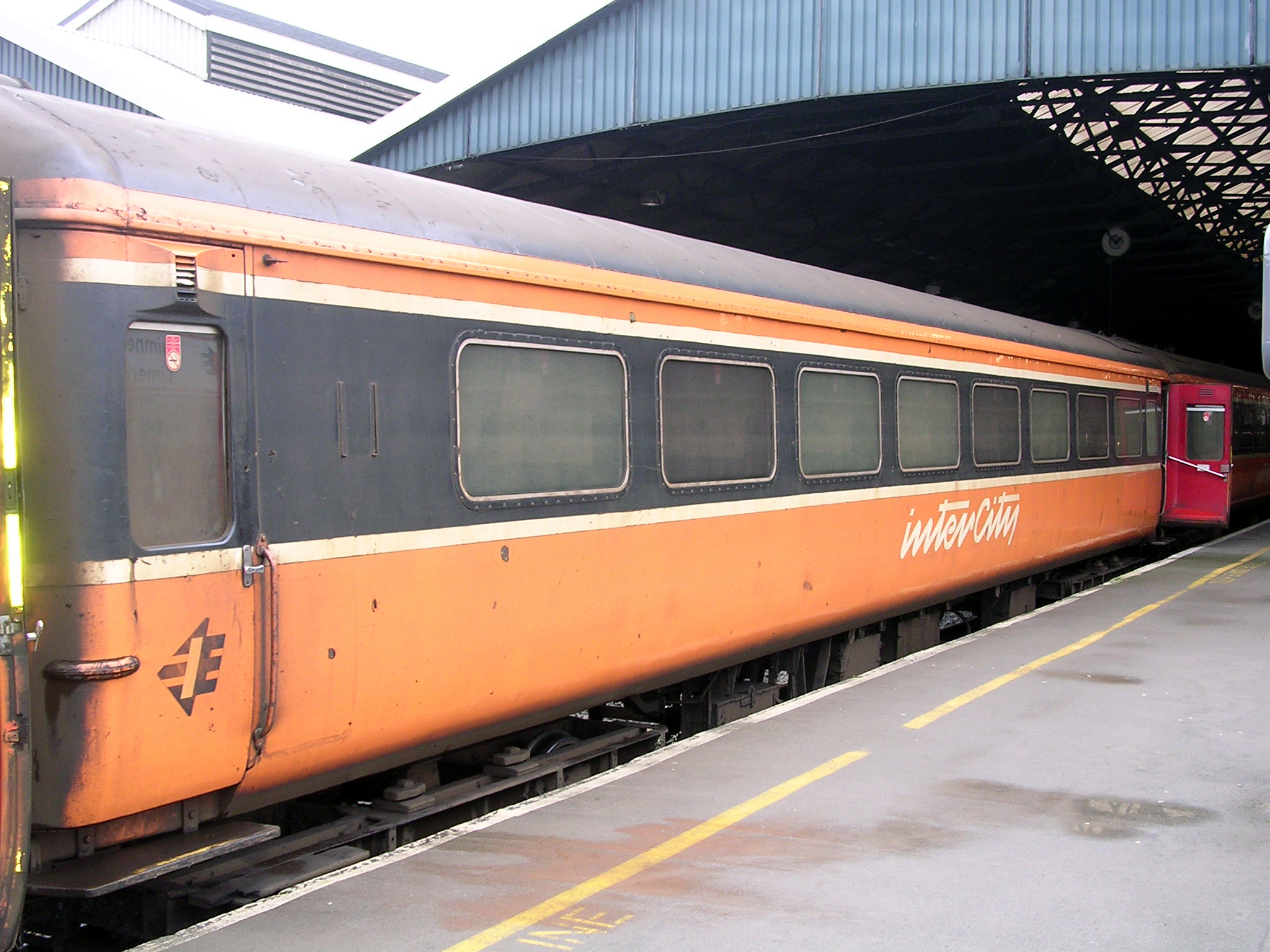 IÉ BR Mk 2 standard class coach (former "Supertrain" set) at Limerick railway station, Ireland